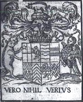 1574 woodcut showing the coat of arms of Edward de Vere, 17th Earl of Oxford, with Latin canting motto Vero Nihil Verius ("Nothing more true than truth"), second page of the above-named work.